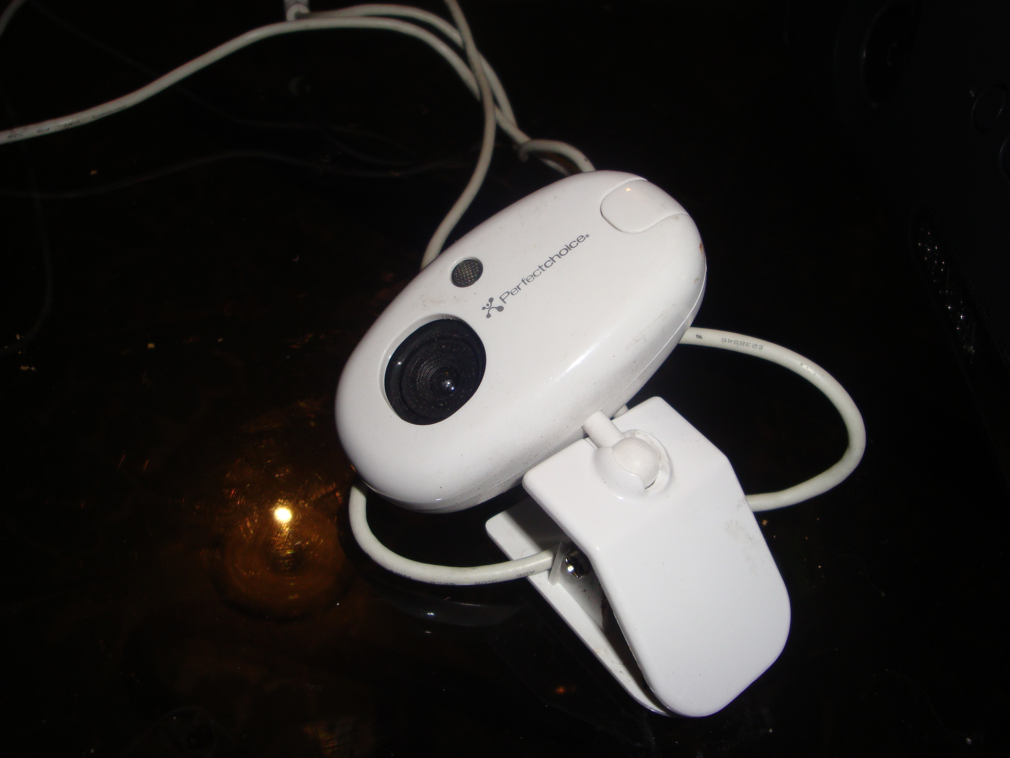 A Perfect Choice PC-320319 webcam